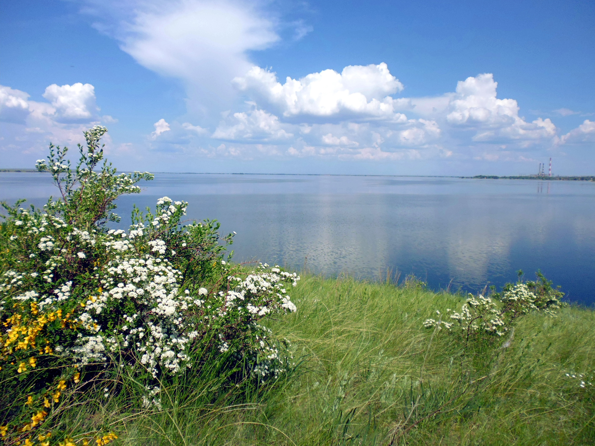 Iriklinskaja dam, at right the small town Energetik